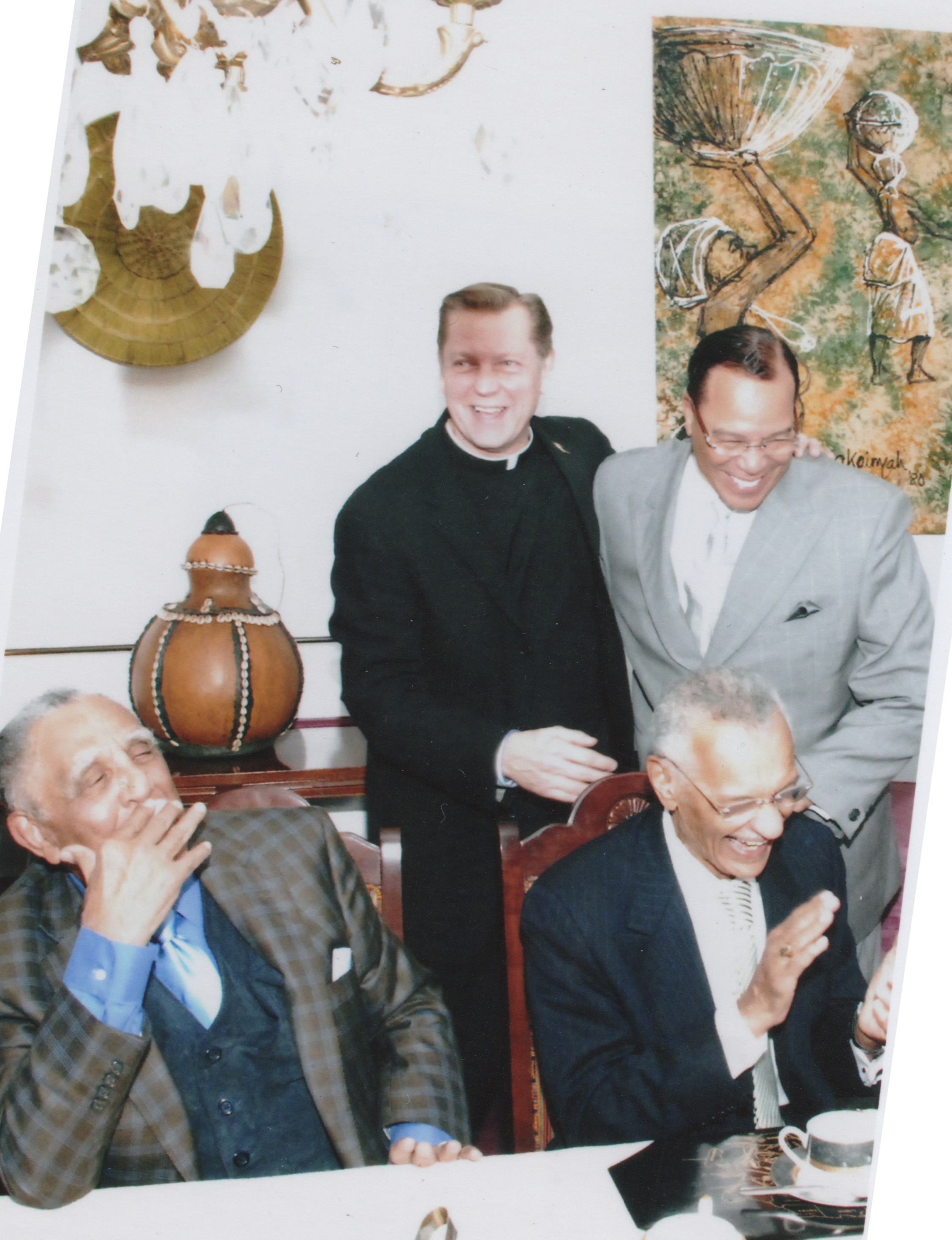 Fr. Michael Pfleger, Rev. Joseph Lowery, Min. Louis Farrakhan and C.T. Vivian conversing in the Rectory dining room